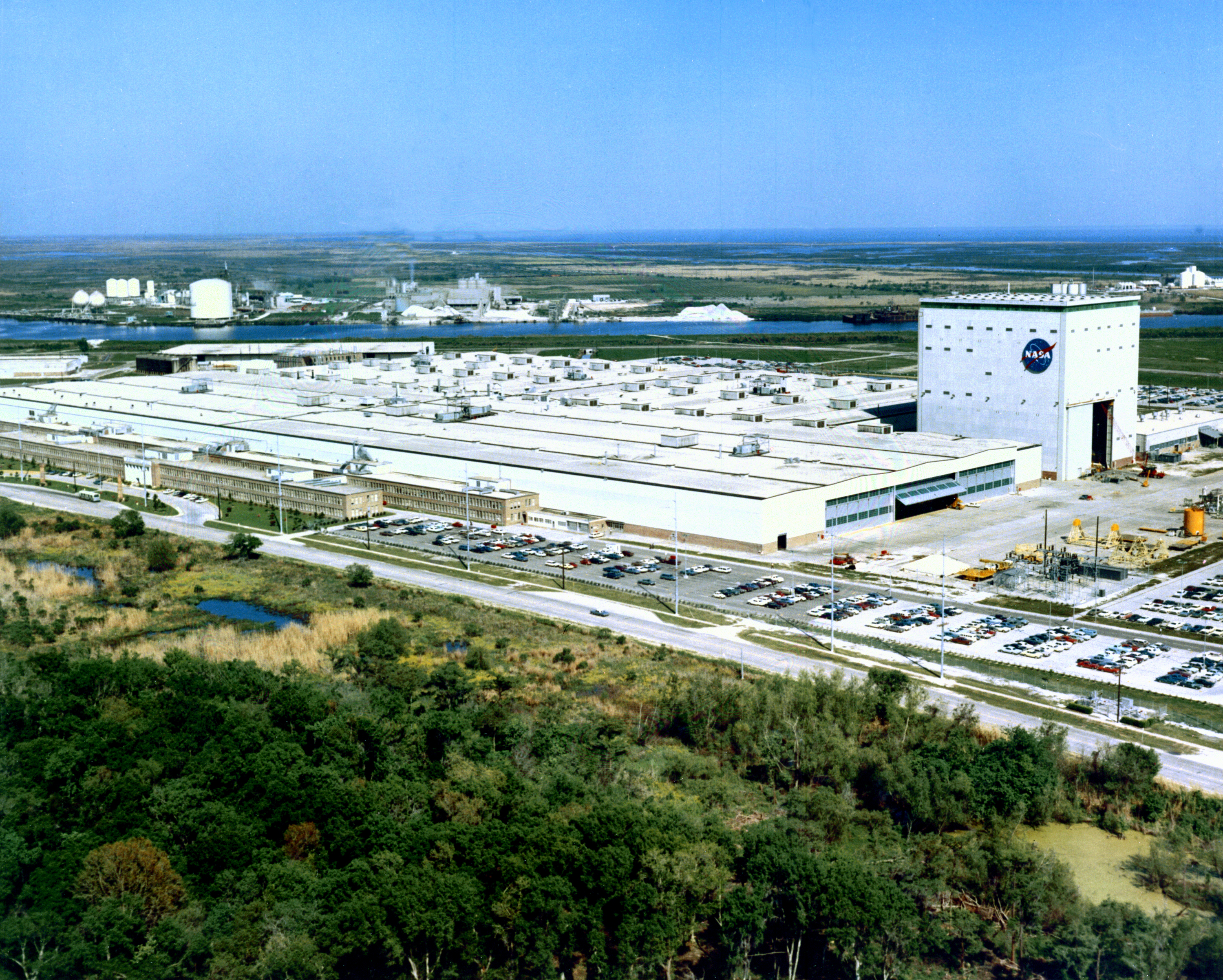 An aerial view of the manufacturing area at Michoud Assembly Facility (MAF). MAF is located 15 miles East of downtown New Orleans, Louisiana, with approximately 156 square miles of manufacturing floor space. The prime contractors, Chrysler and Boeing, manufactured the stages of Saturn IB and Saturn V during the Apollo program. Prime contractor, Lockheed Martin, manufactured the Space Shuttle External Tank (ET) during the Space Shuttle program. MAF currently manufactures the Space Launch System (SLS) and the Command Module of the Orion Multi-Purpose Crew Vehicle (Orion MPCV) under the direction of the Boeing and Lockheed Martin, respectively. This photograph was taken in 1968. View shows Facility fronting Gentilly Road, with the preserved smokestacks from the old Michoud Plantation visible in front at left. Beyond the facility the Gulf Intracoastal Waterway canal can be seen.